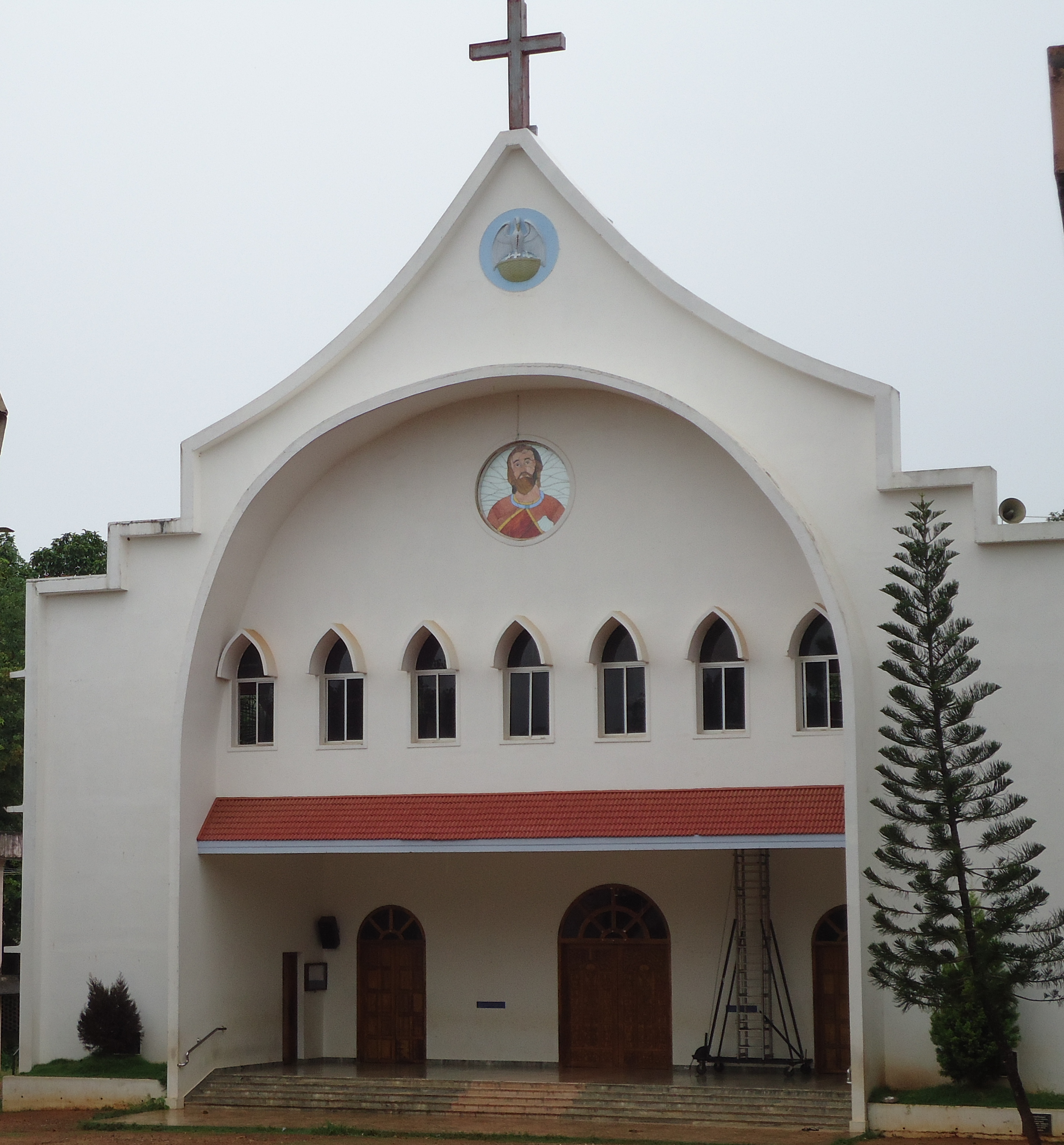 front view of chuch